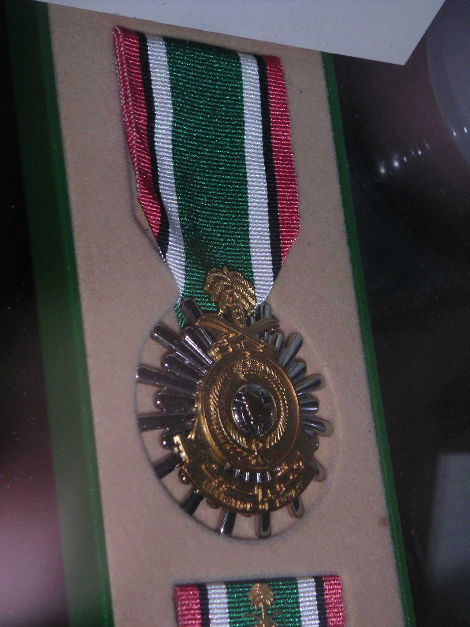 A photograph of the Kuwait Liberation Medal, a military decoration given to members of the U.S. military for service during the Persian Gulf War. Photograph taken by me in the Museum of Florida's Military in St. Augustine, Florida on August 7, 2004. Released into public domain.